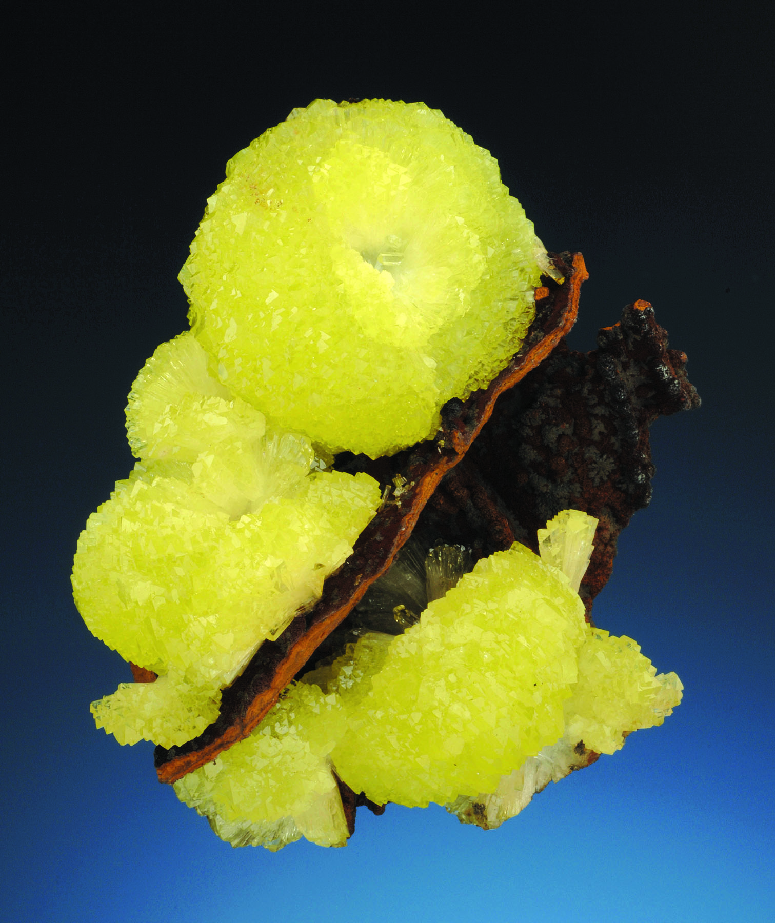 Adamite Locality: Ojuela Mine, Mapimí, Municipio de Mapimí, Durango, Mexico (Locality at ) Size: small cabinet, 8.5 x 6.25 x 4.5 cm Adamite While there have been thousands of adamites, seldom do you get such aesthetics, such balance, combined with the ultimate in glassy lustre and translucent yellow-green color-saturation. This piece has long been held as the "model" for what a killer adamite of this habit (so-called "green pinwheels") should look like, and was a signature piece of the collection. Its striking color and lustre is not well-captured in the photo, and it is much more intense in person. Once a core specimen on display in both his museum, and later for a decade in the University of Arizona Mineral Museum on loan from the Romero family. Featured in the book on Romero's collection, on page 32. Jeff Scovil photo